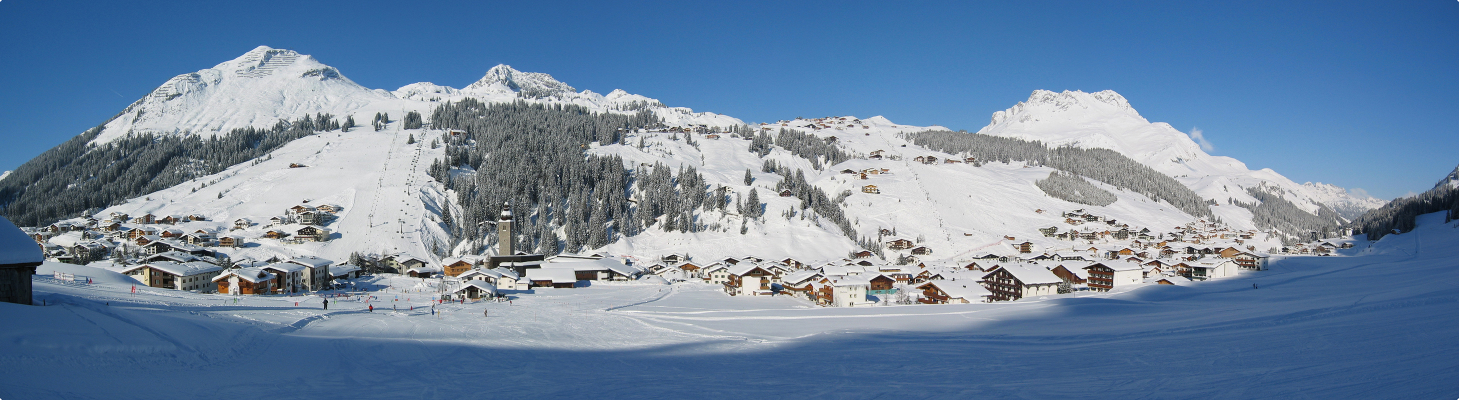 A panorama of Lech am Arlberg.